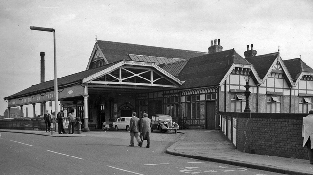 Burton-on-Trent Station, entrance. View SE, entrance on Borough Road Bridge; ex-Midland Derby etc. - Birmingham etc. Main line, and connecting lines.